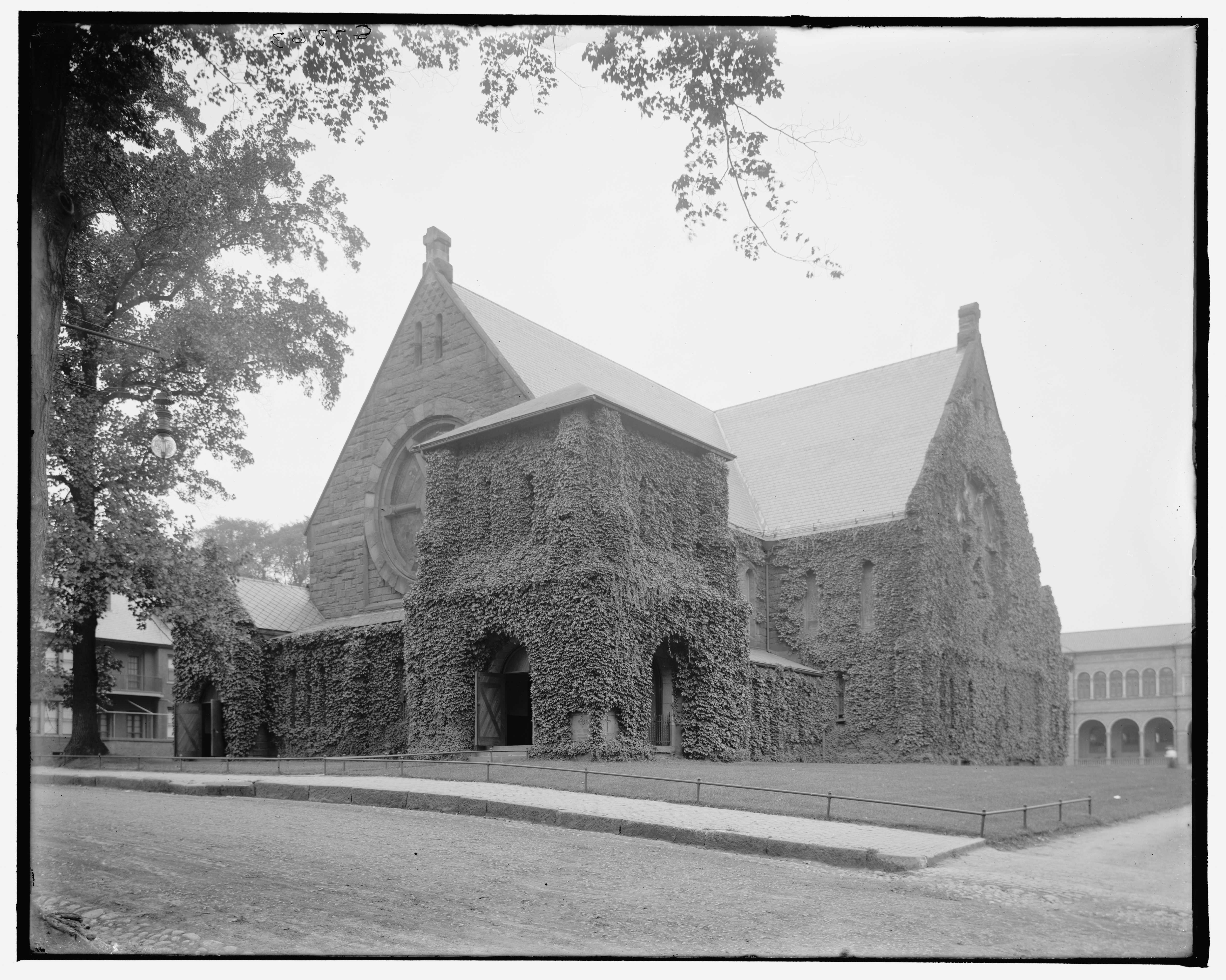 Christ Church Cathedral in Springfield Massachusetts, between 1905 and 1915